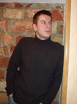 Vlado Georgiev, Montenegrin singer & composer